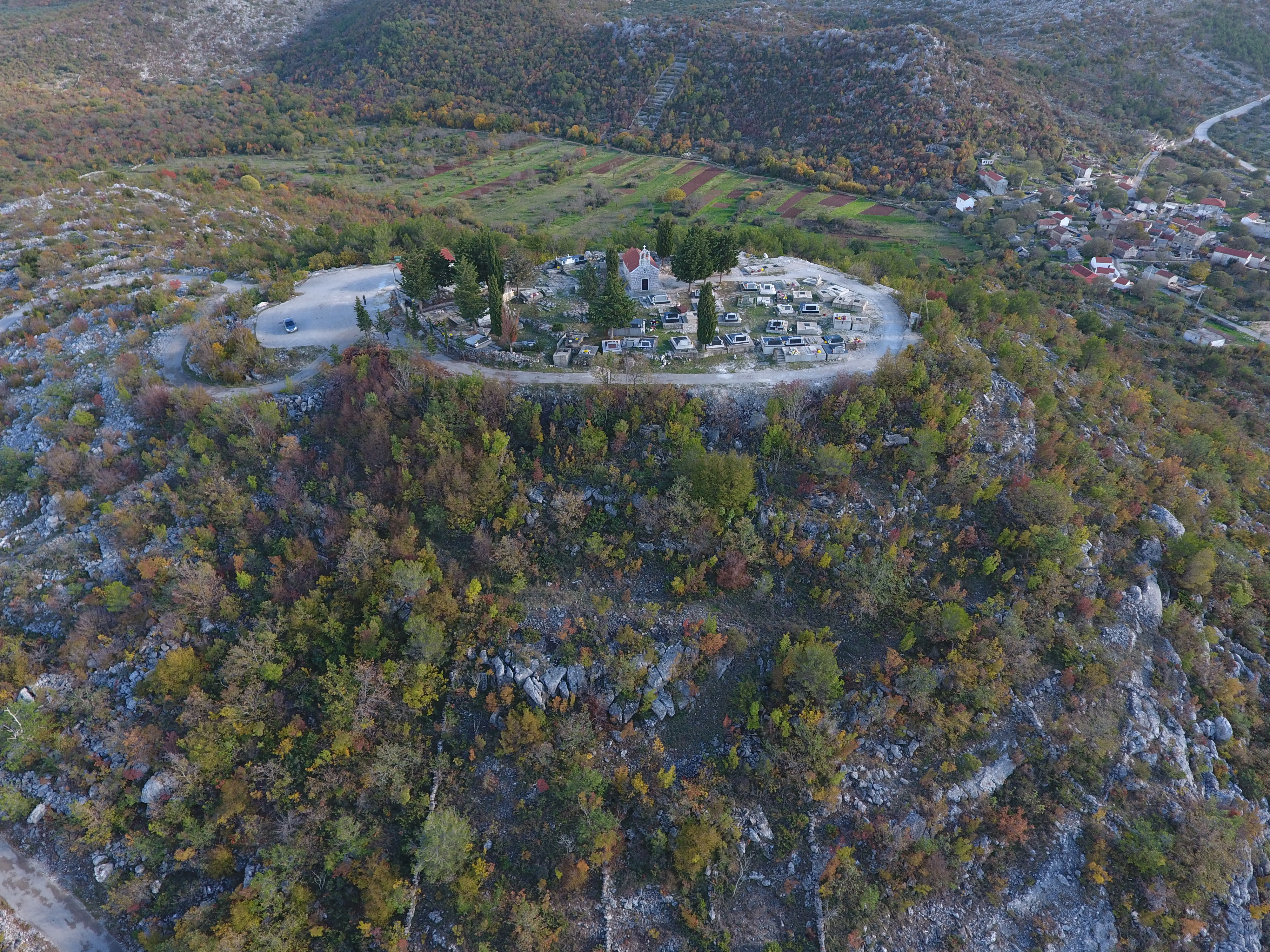 Hill Bobovac, village Rastovac, Marina, Croatia